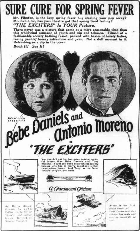 Advertisement for the American romantic comedy film The Exciters (1923) with Bebe Daniels and Antonio Moreno, on page 24 of the May 24, 1923 Variety.